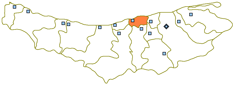 Author: Siamax Source: Mazandaran Plain Map Tag: Babolsar location in Mazandaran